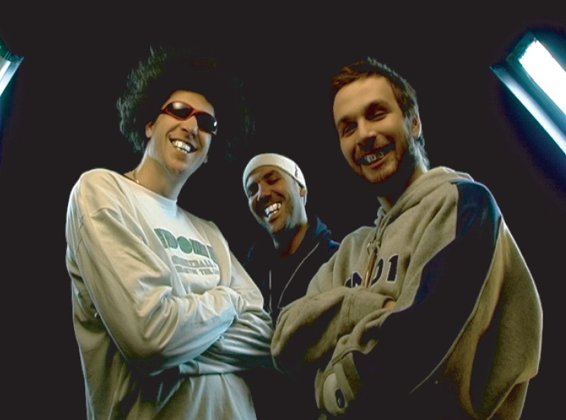 the members of Bad Copy wearing grills at the filming of the "Ostrugale Pete" video for Ajs Nigrutin's second album.